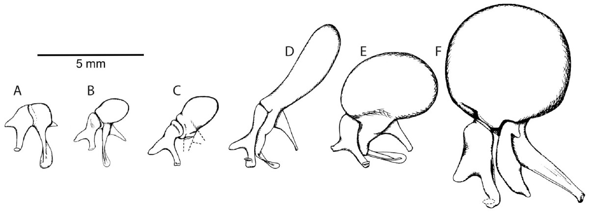 Malleus and incus morphology among golden moles: A) Amblysomus hottentotus, B) Chlorotalpa sclateri, C) Carpitalpa arendsi, D) Chrysochloris asiatica, E) Eremitalpa granti, F) Chrysospalax villosus